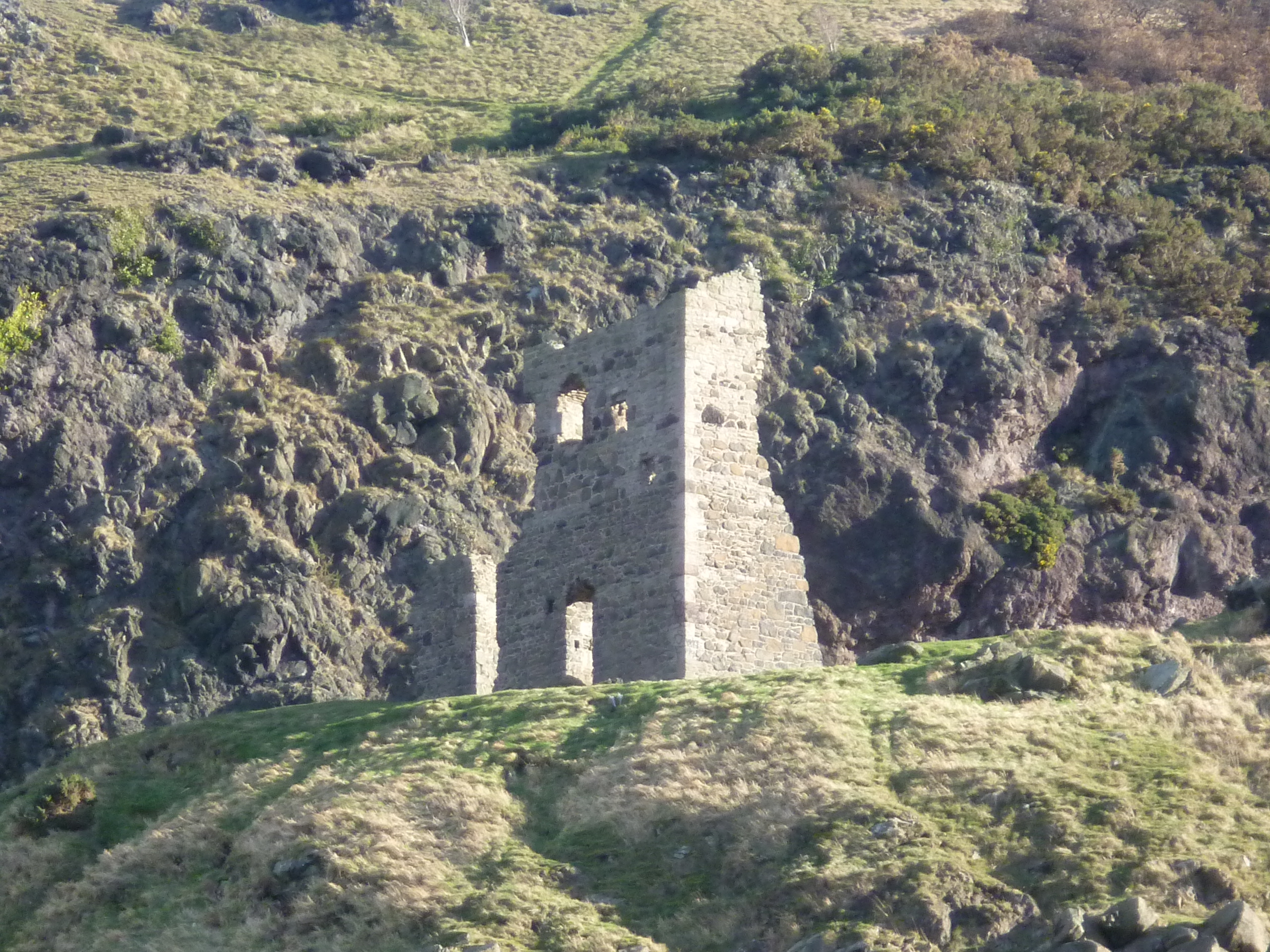 St. Anthony's Chapel, Edinburgh